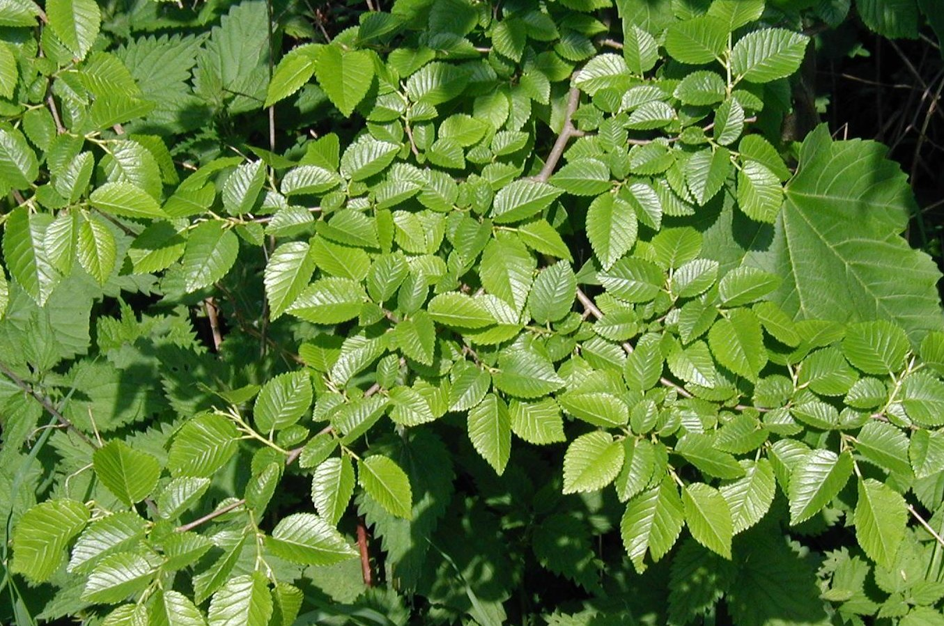 Ulmus minor: Ulmus minor foliage making a tight cover.